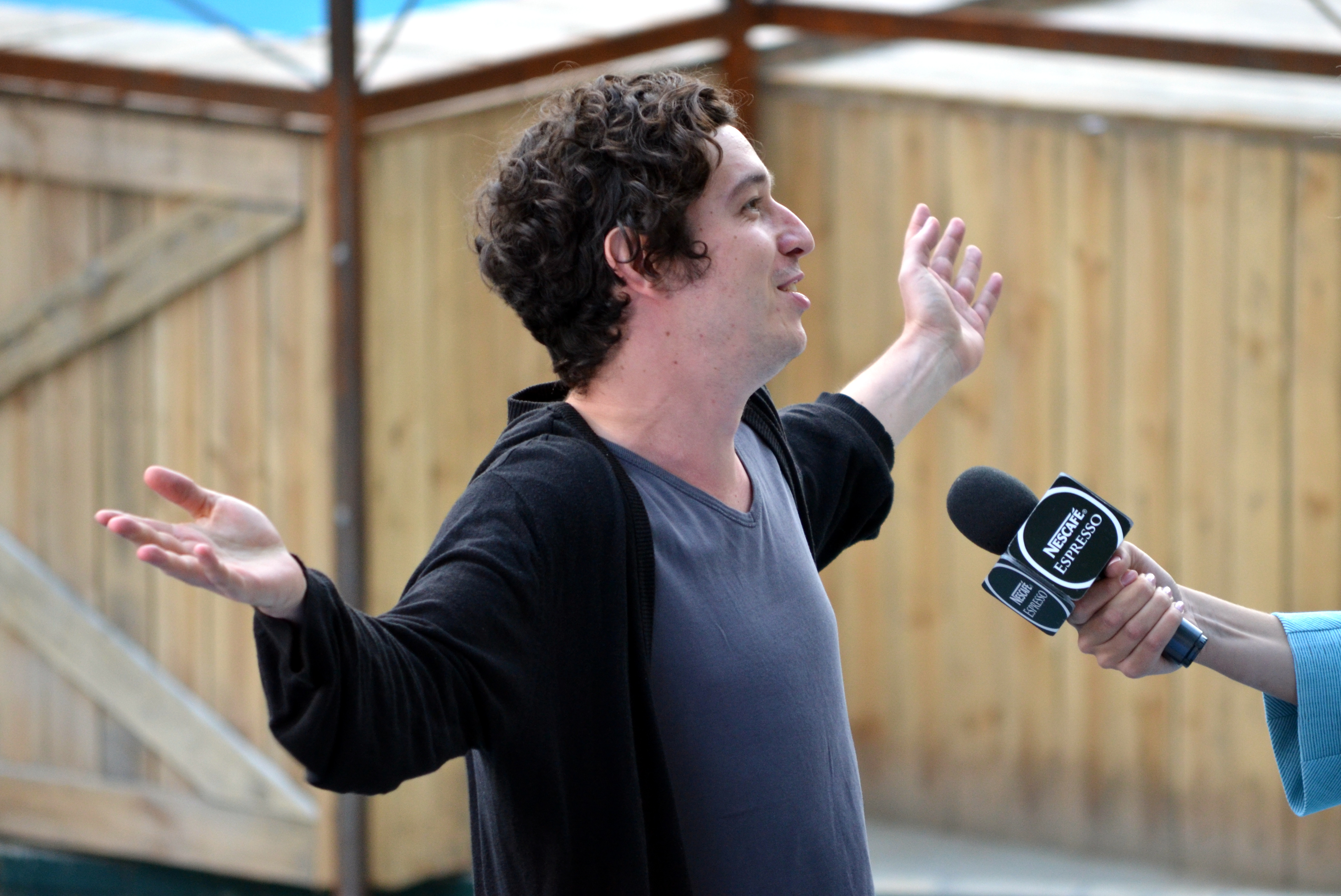 Pianoboy interviewed in the Green Theatre